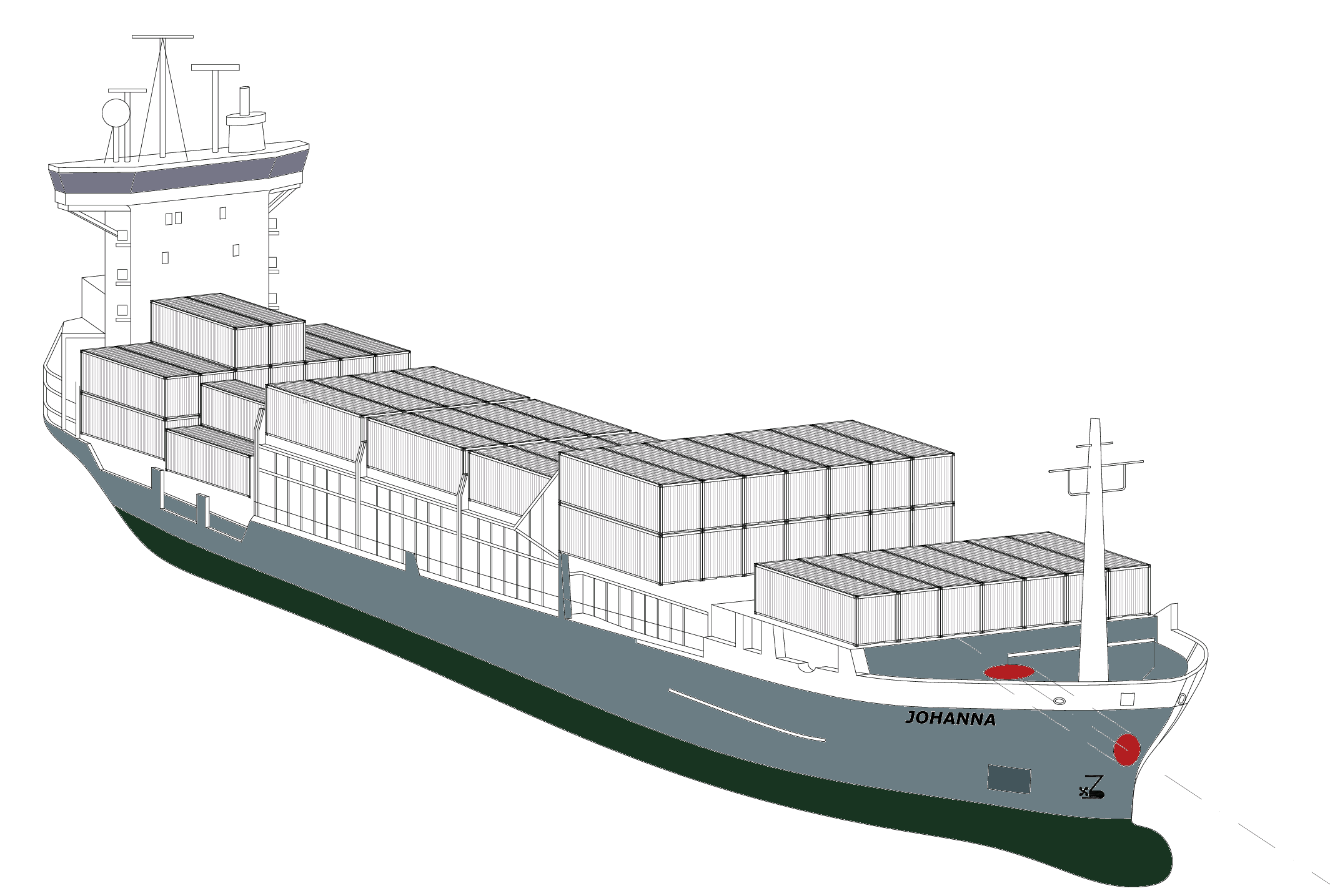 Open-Top-Container ship (drawing) with hole in the starboard bow